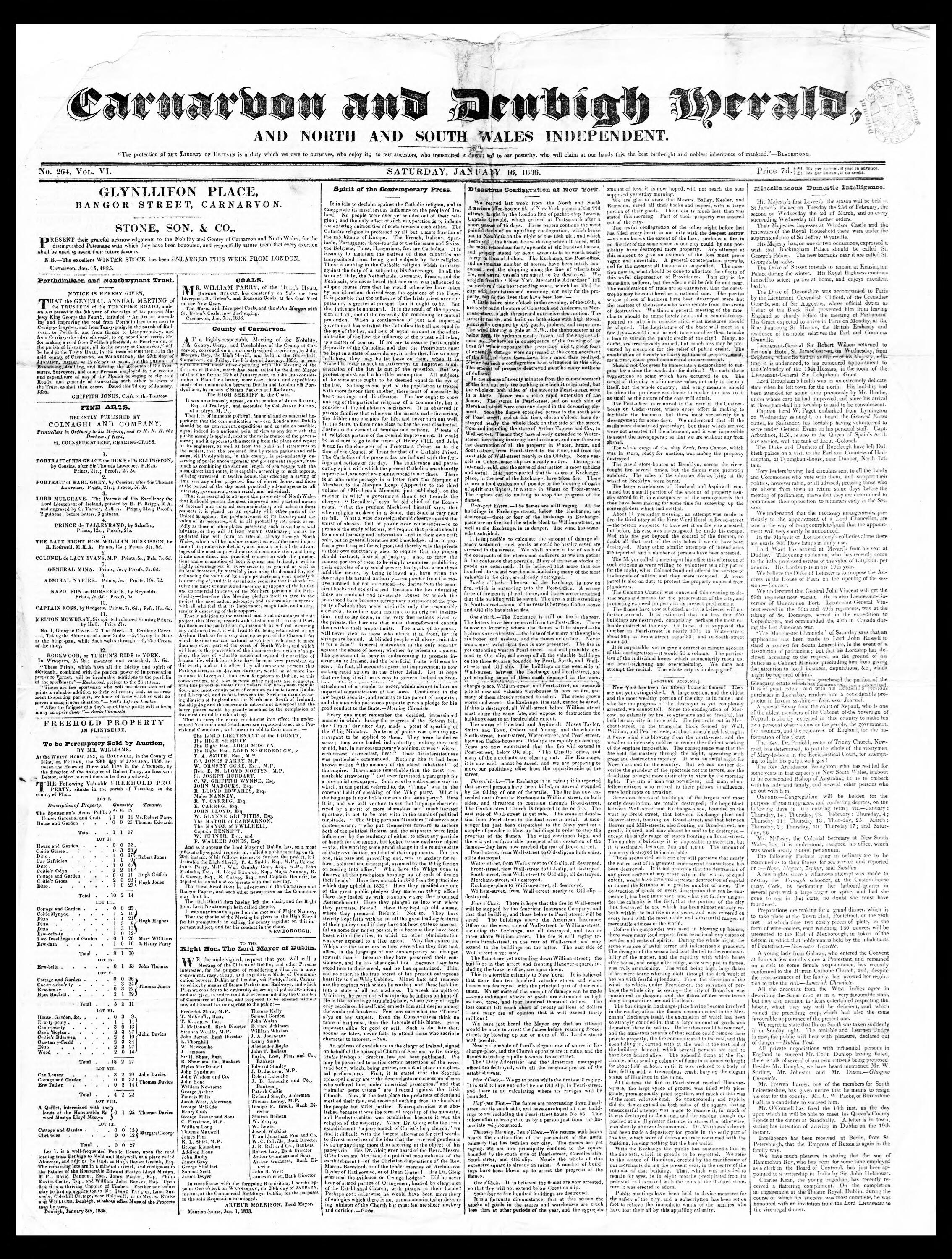 Front page of the earliest surviving copy of the Welsh newspaper Carnarvon and Denbigh Herald